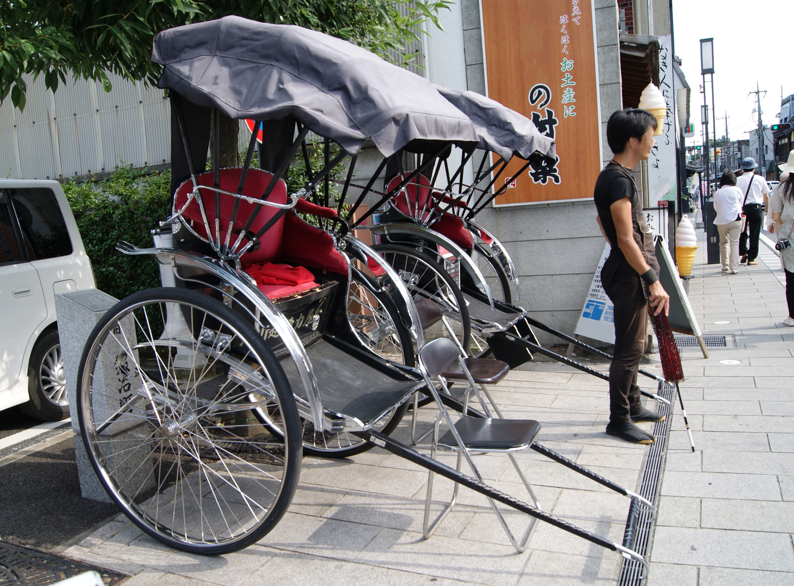 Rickshaws in kawagoe Japan